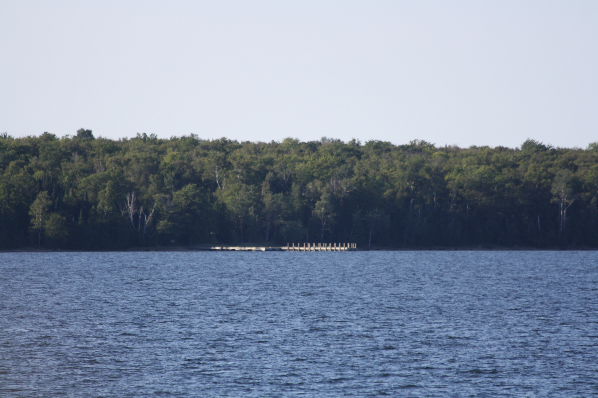 The Hadland Fishing Camp, listed on the National Register of Historic Places.